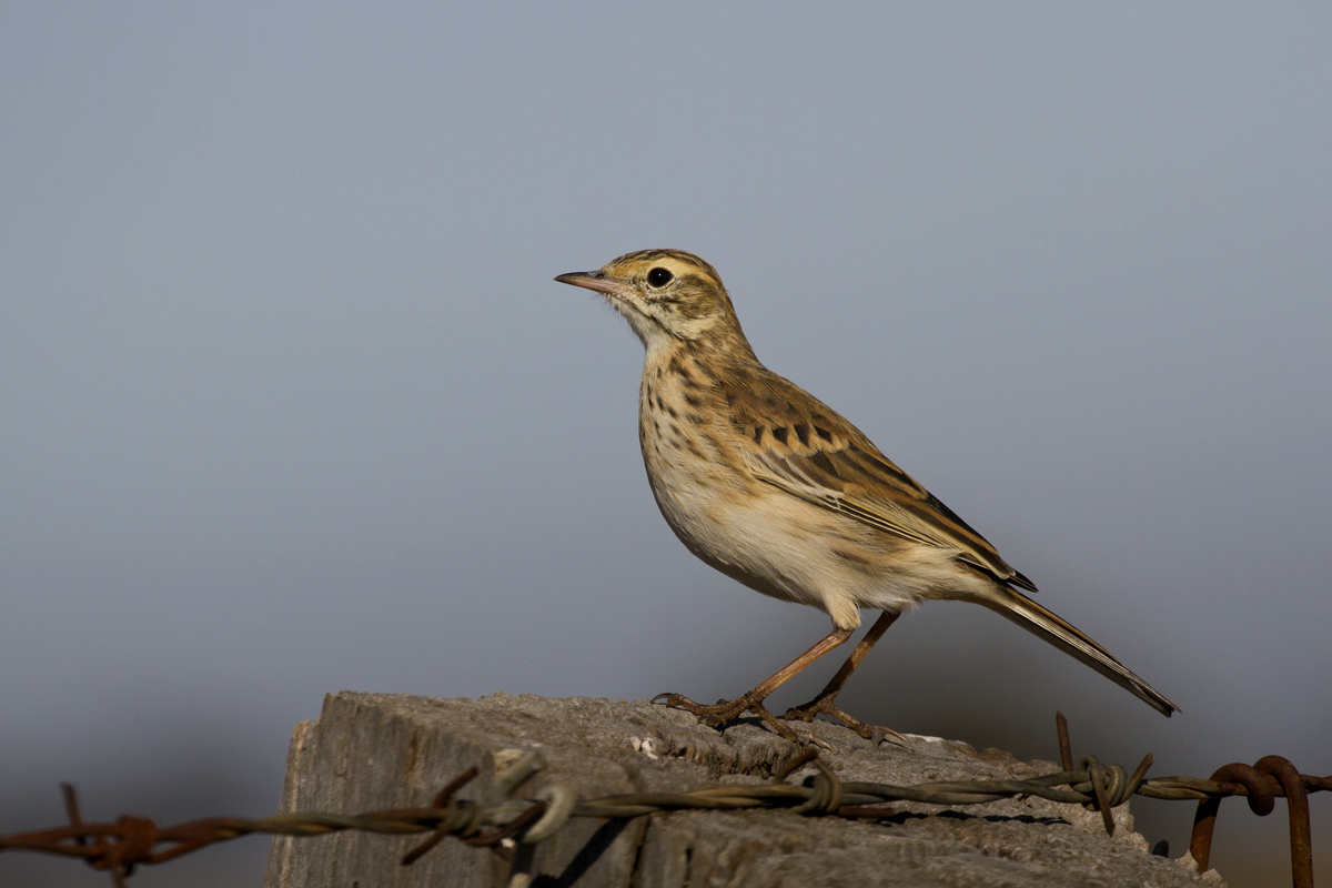 Australian Pipit Anthus australis, Mooloort Plains, Central Vic.